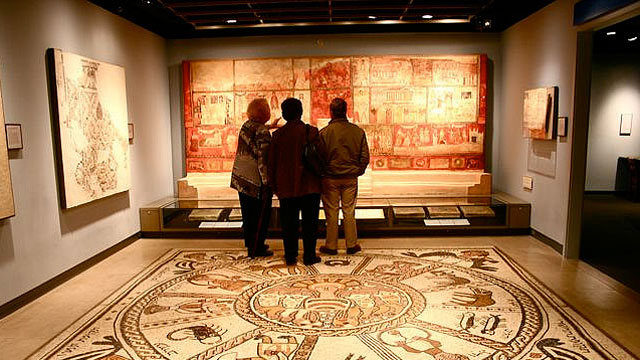 One room in the museum filled with artwork